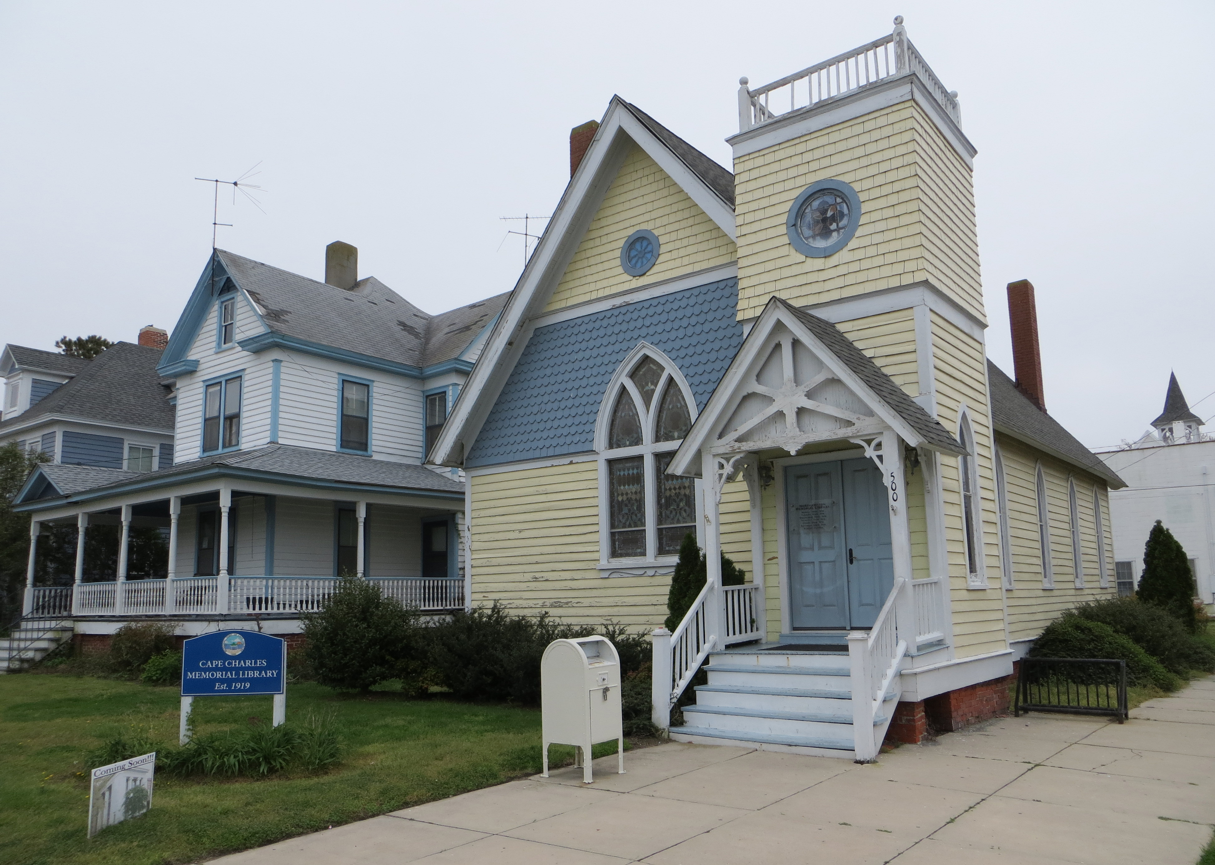 Cape Charles Memorial Library, Tazewell Ave. at Plum St., Cape Charles, Virginia. Built in 1900 as First Presbyterian Church, converted to Northampton Memorial Library in 1927, the first war memorial library in Virginia, renamed Cape Charles Memorial Library in 2009.